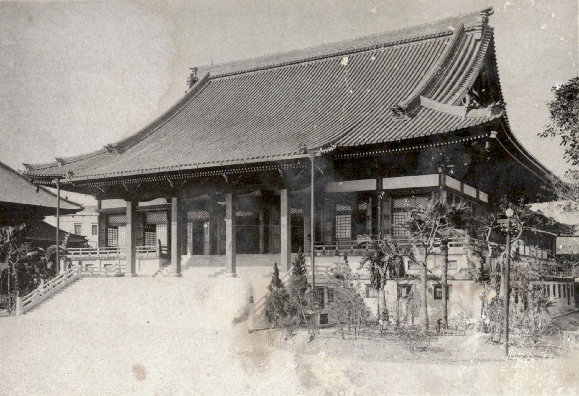 the new built Honganji Taiwan Betsuin